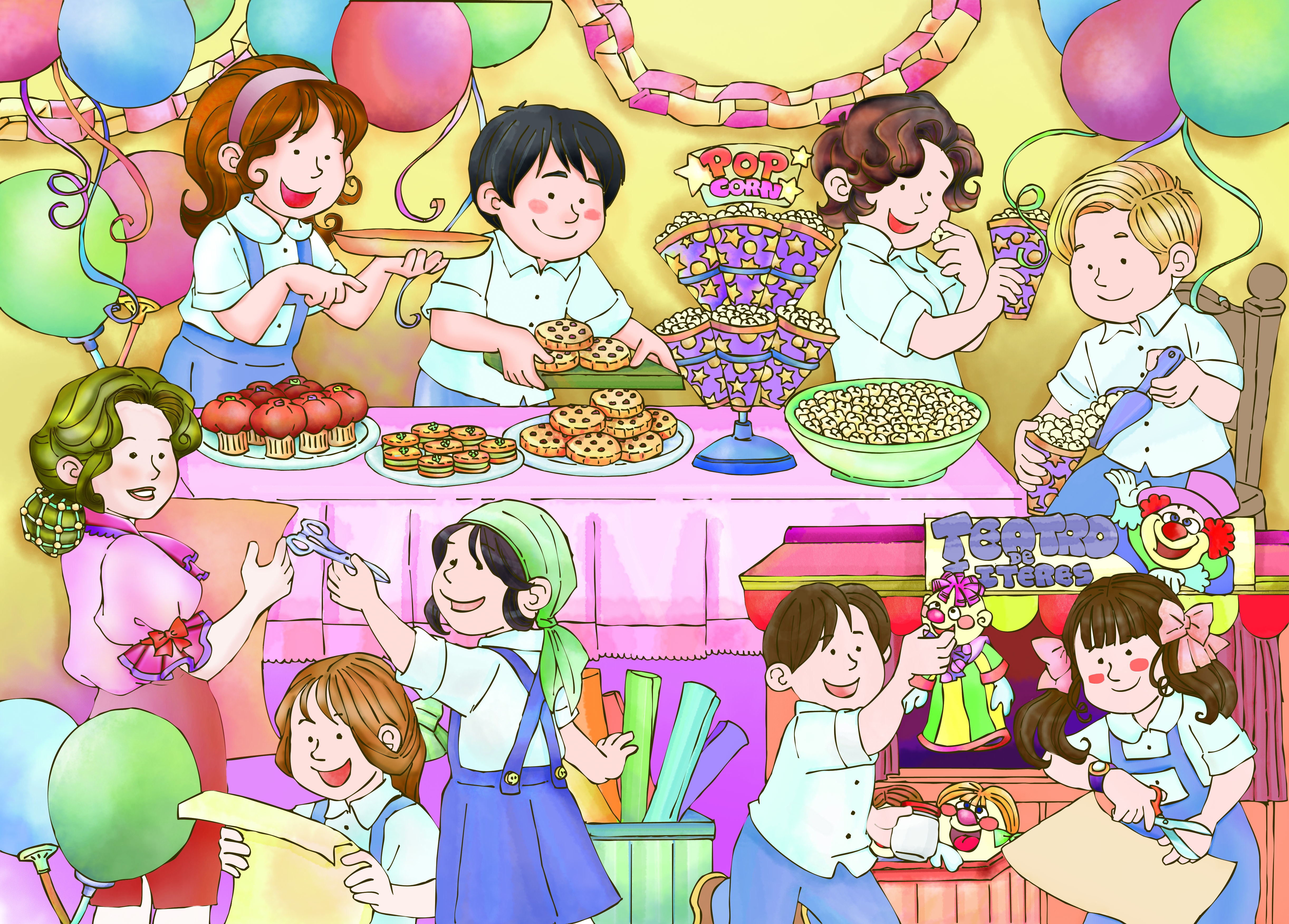 Cartoon of a children's party